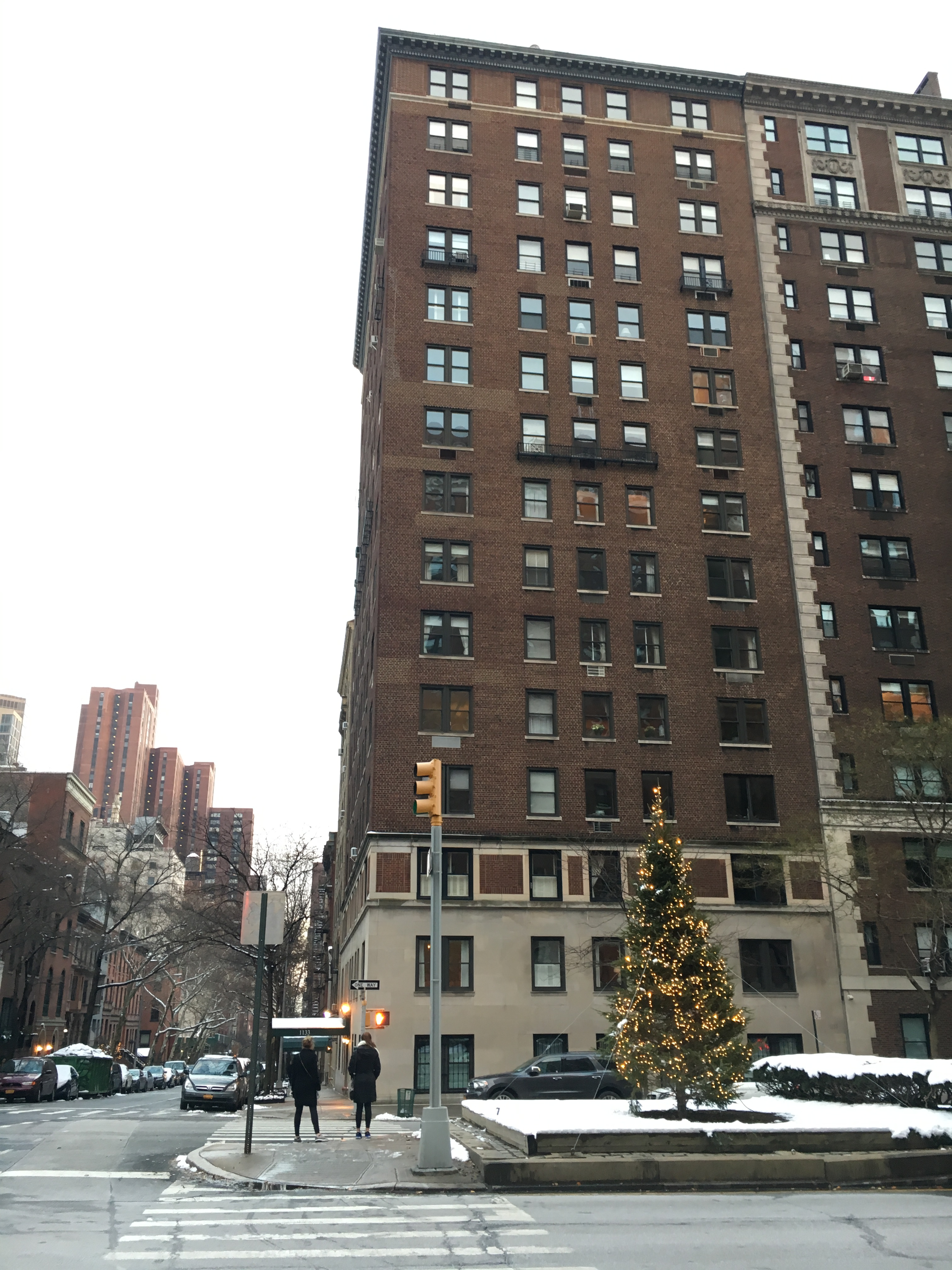 1133 Park Avenue, corner of 91st Street, Upper East Side, Manhattan